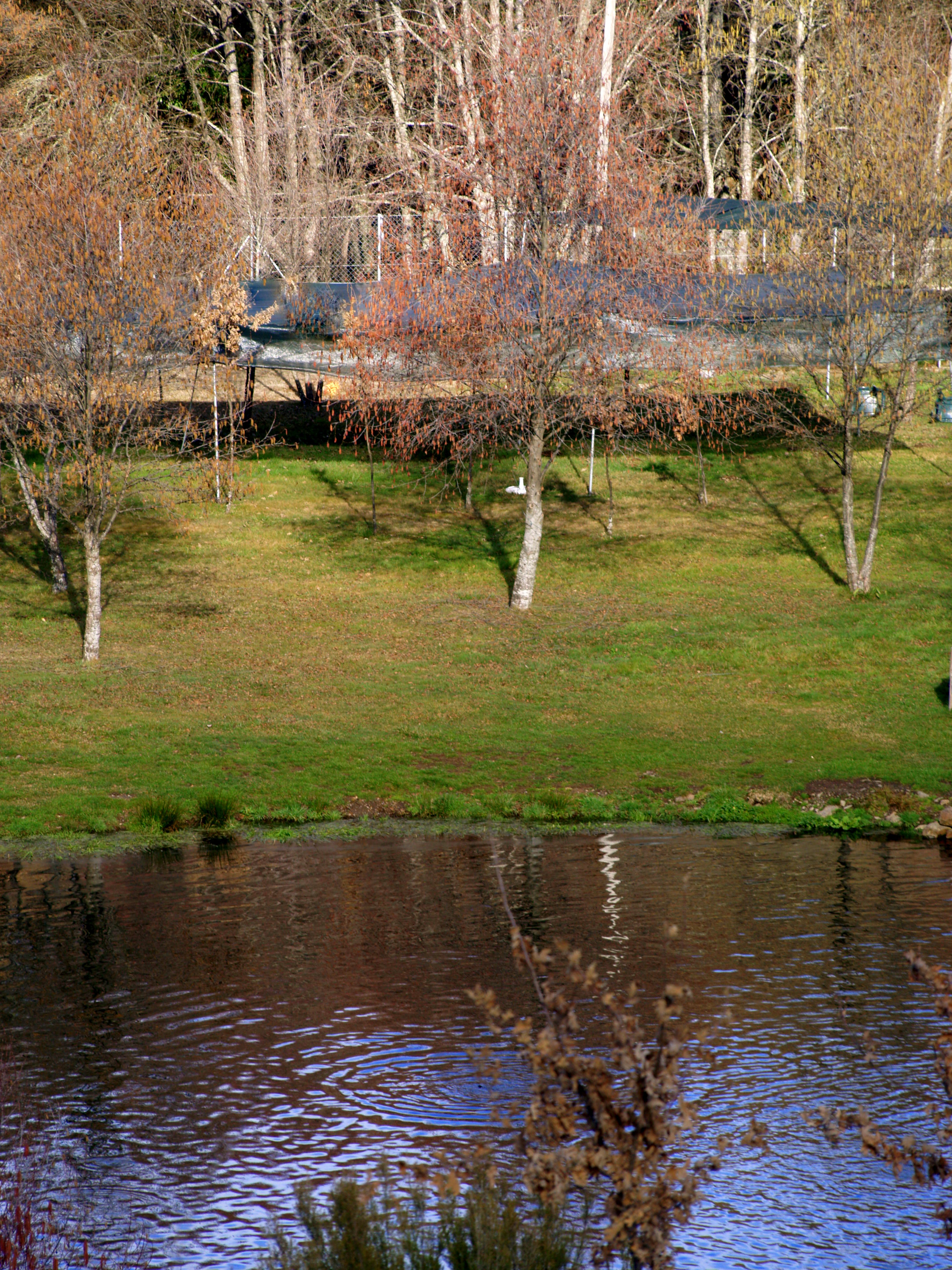 Coa River at Malcata Mountain Range